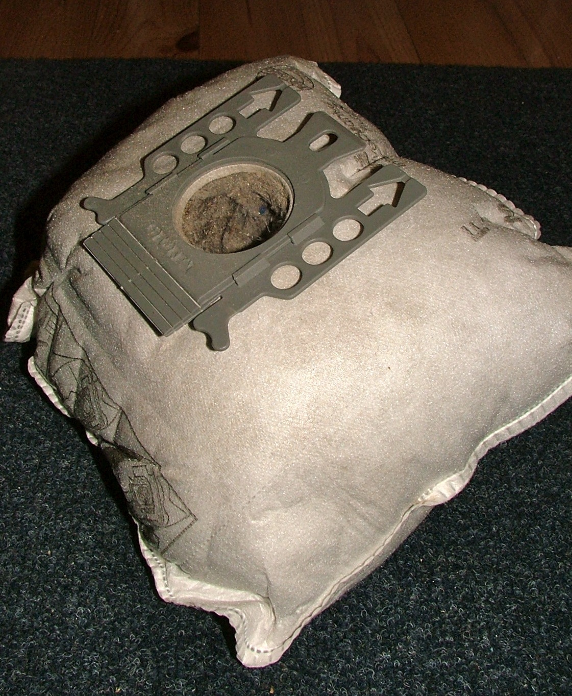 A used, completely filled up Miele vacuum cleaner dustbag.